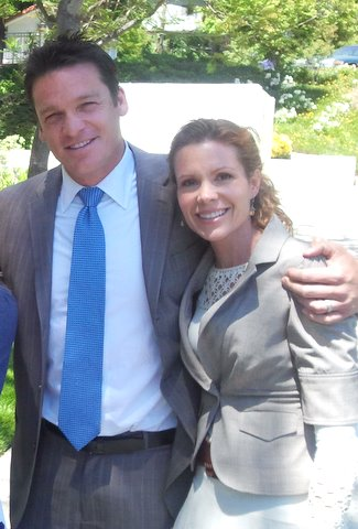 Bart Johnson and his wife Robyn Lively in Burbank California in 2011.